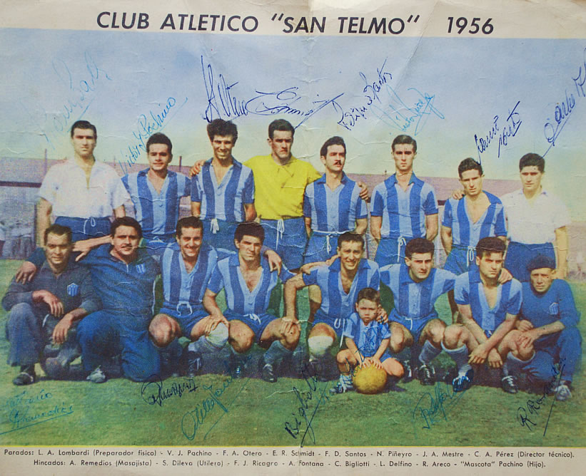 San Telmo 1956 champions of Argentine football lower divisions.